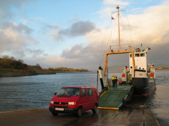 Ferry, MV Eigg loading at Achnacriosh, Lismore, Scotland